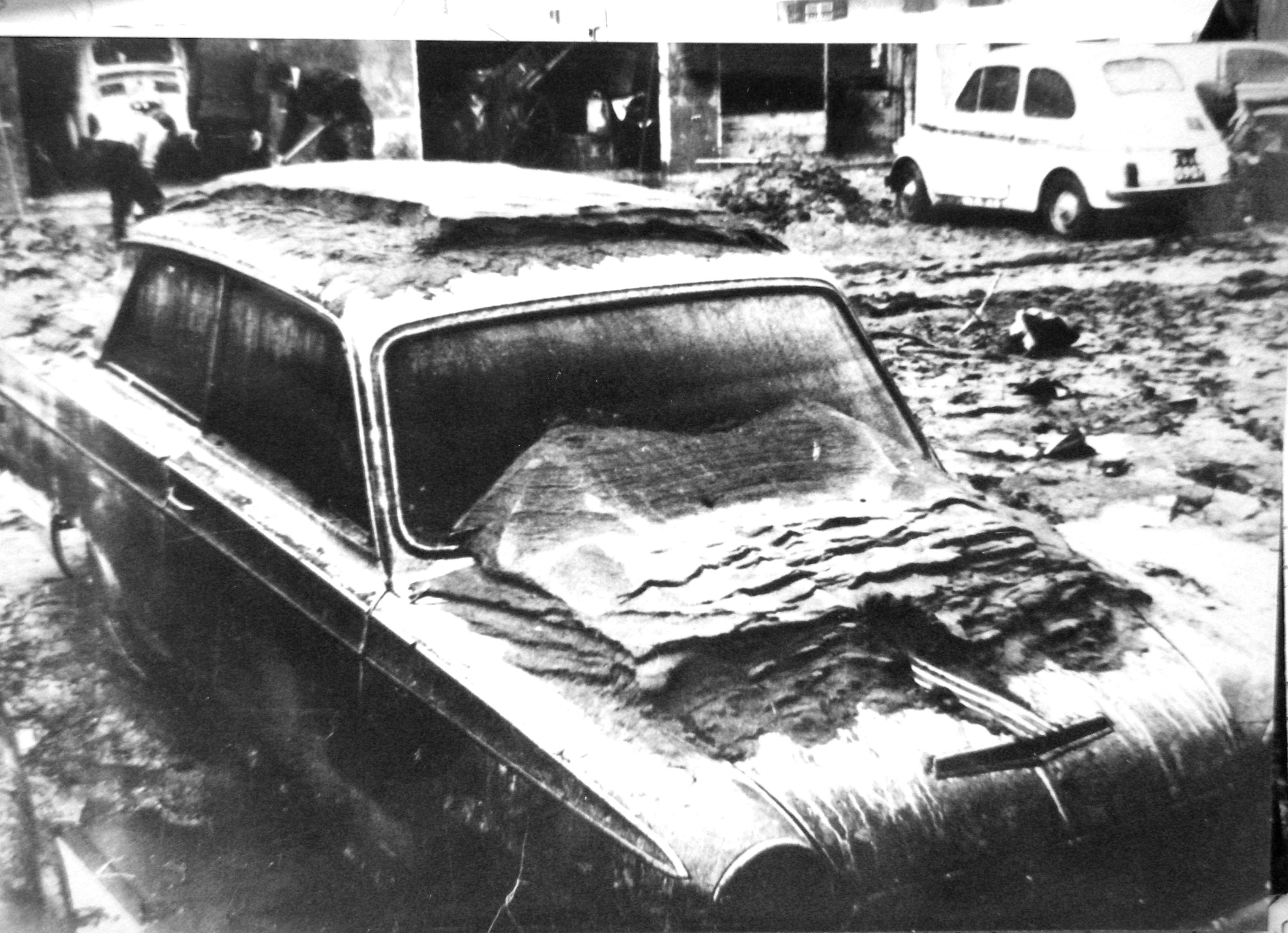 car after the flood in Florence 1966